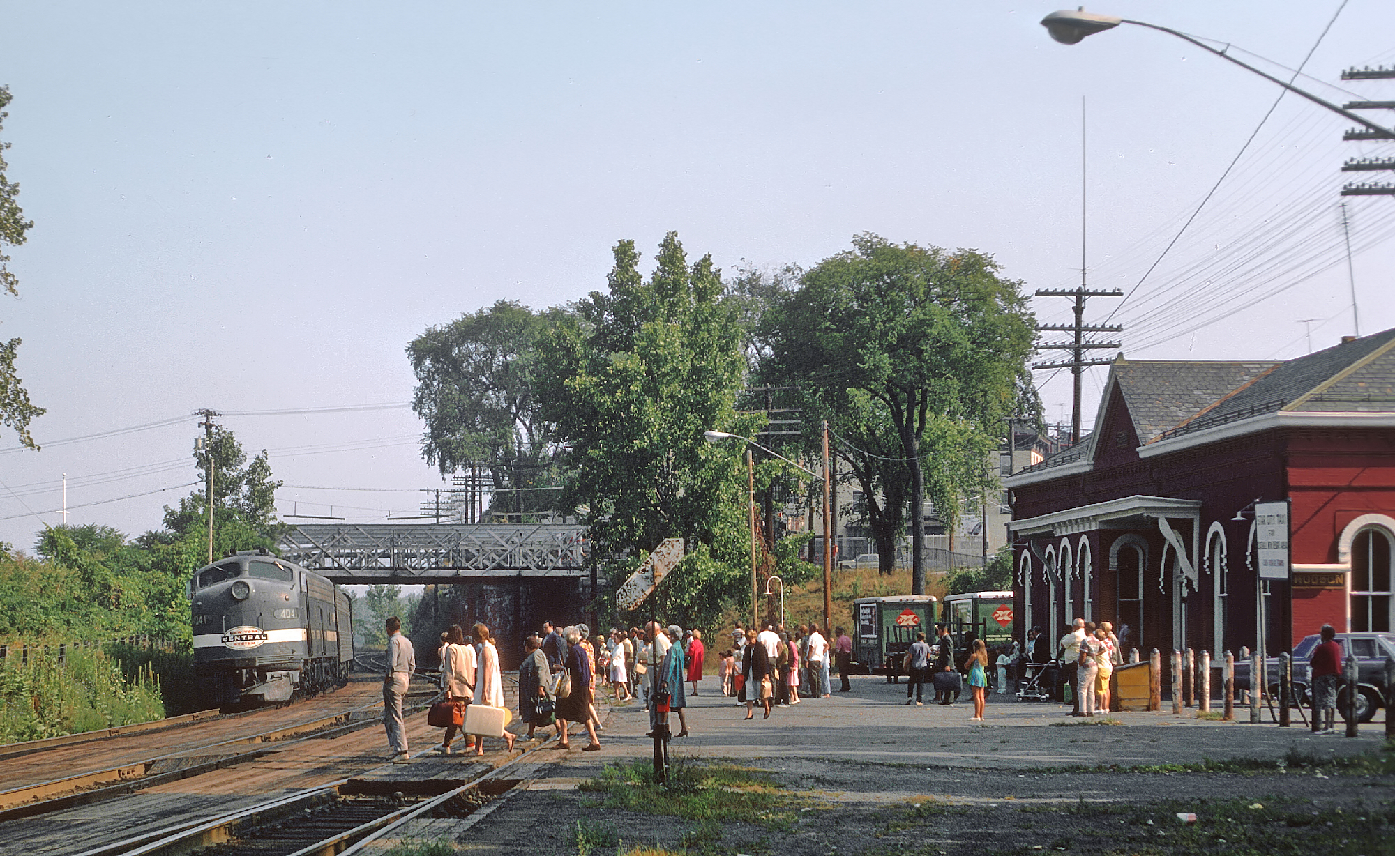 Penn Central E8 #4041 leads an Empire Service train at Hudson in September 1968